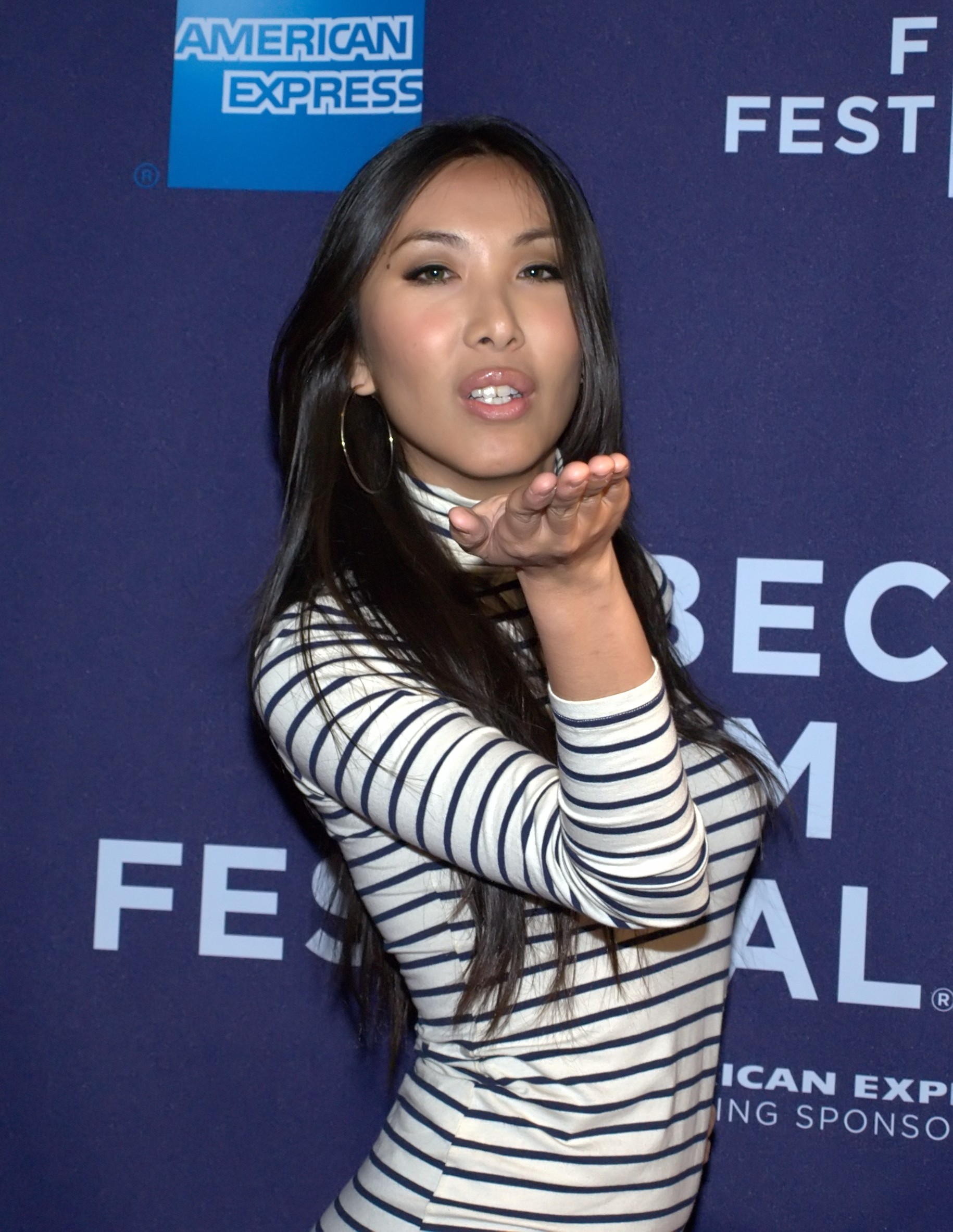 Nina Poon at the 2010 Tribeca Film Festival for the premiere of Ticked Off Trannies with Knives.